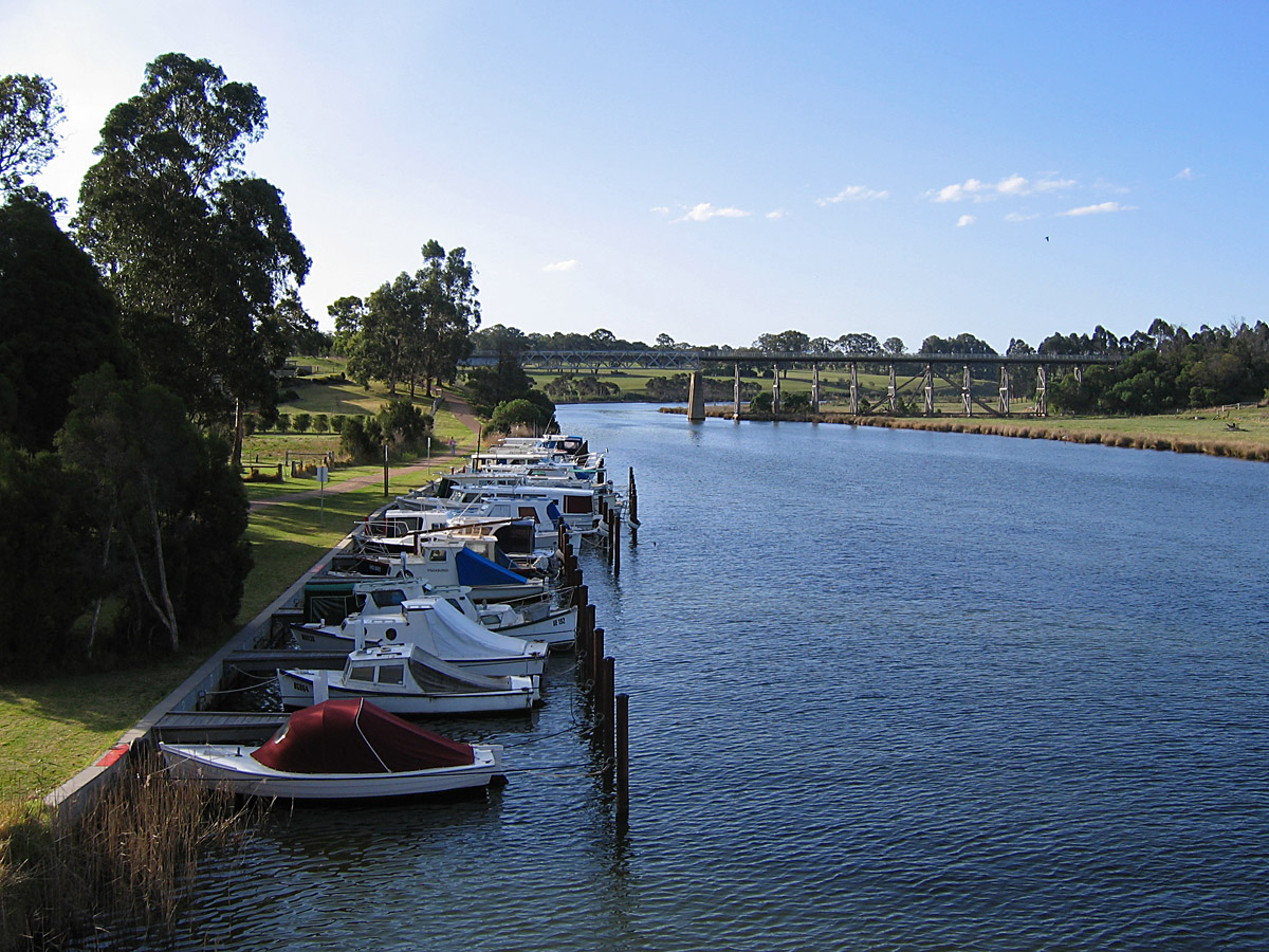 Looking north up the Nicholson River from the Princes Highway road bridge towards the East Gippsland Rail Trail former railway trestle bridge. The rail trail access track is visible on the left (west) bank of the river. Nicholson, Victoria, Australia.